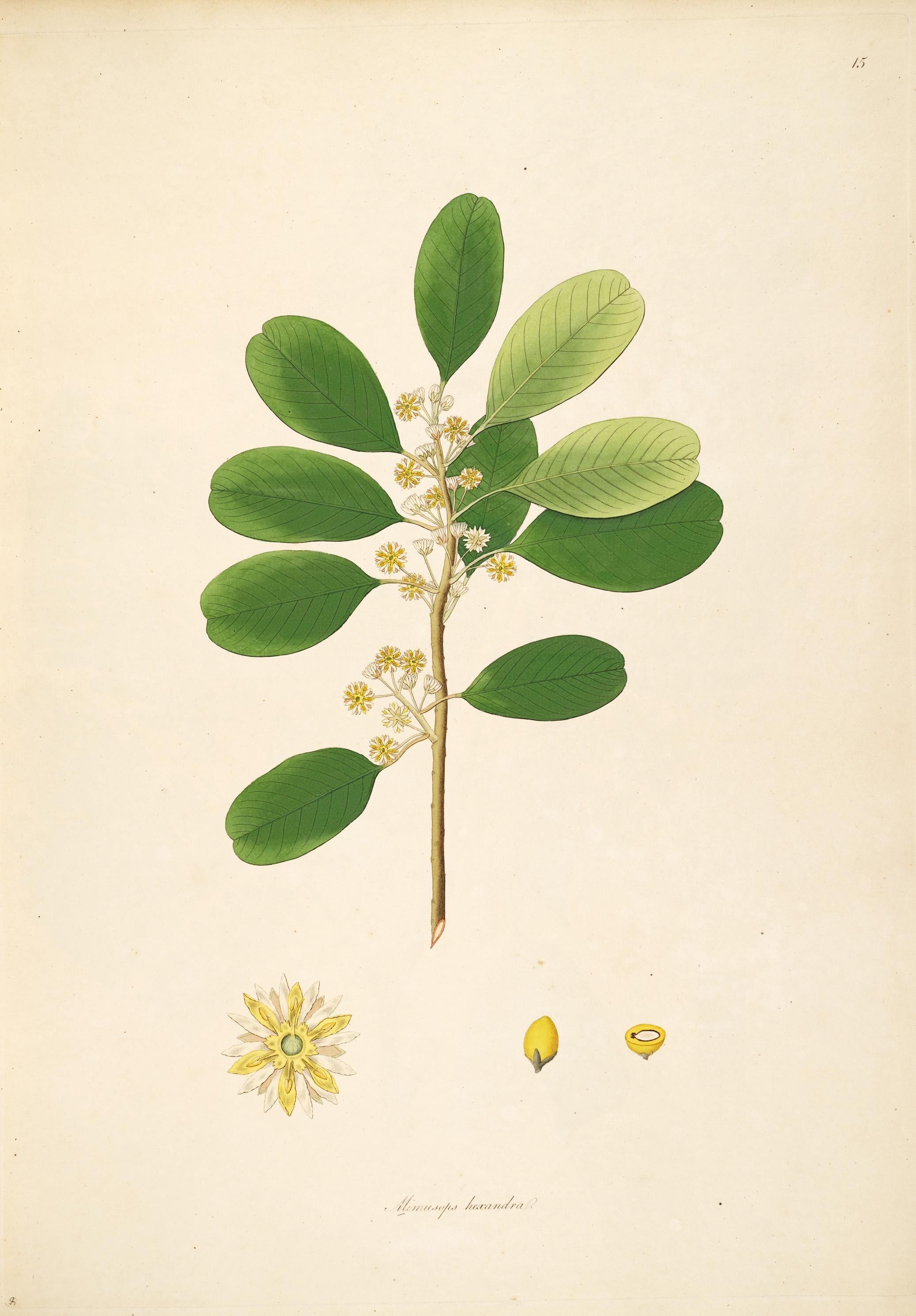 For this 1795 publication with detailed text description on flora in India, see William Roxburgh, Plants of the coast of Coromandel - Volume 1 Coromandel coast stretches from Tamil Nadu to Andhra Pradesh states of India The scientific botanical name is at the bottom of the illustration plate. This 18th century illustration qualifies for PD-Art license.